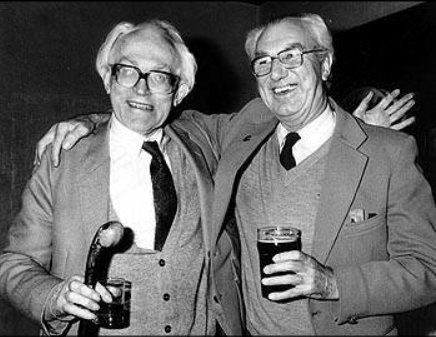 Photo of Michael Foot and Ron Lemin